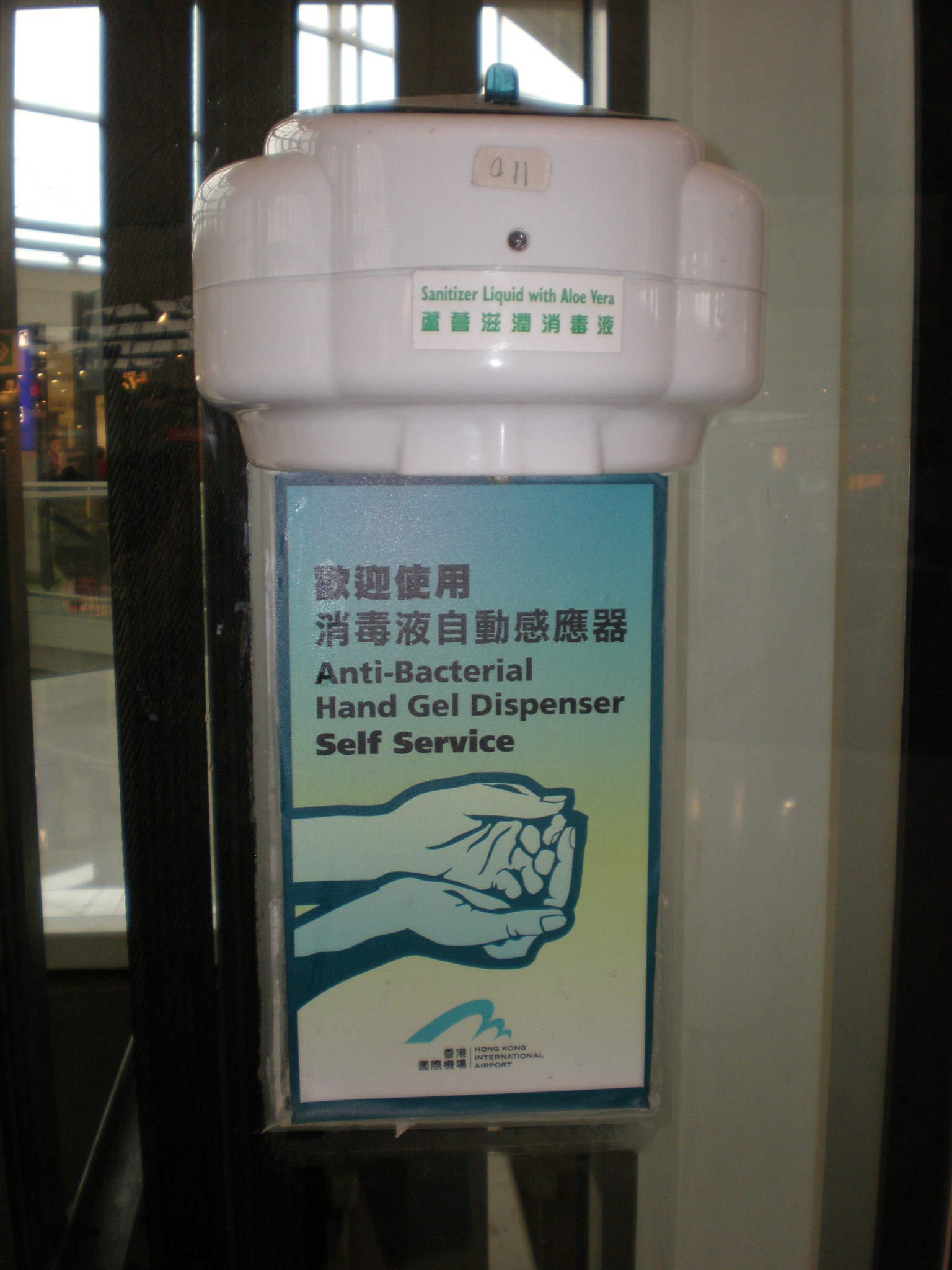 Hand sanitizer dispenser in the departure area of Terminal 1 of Hong Kong International Airport.